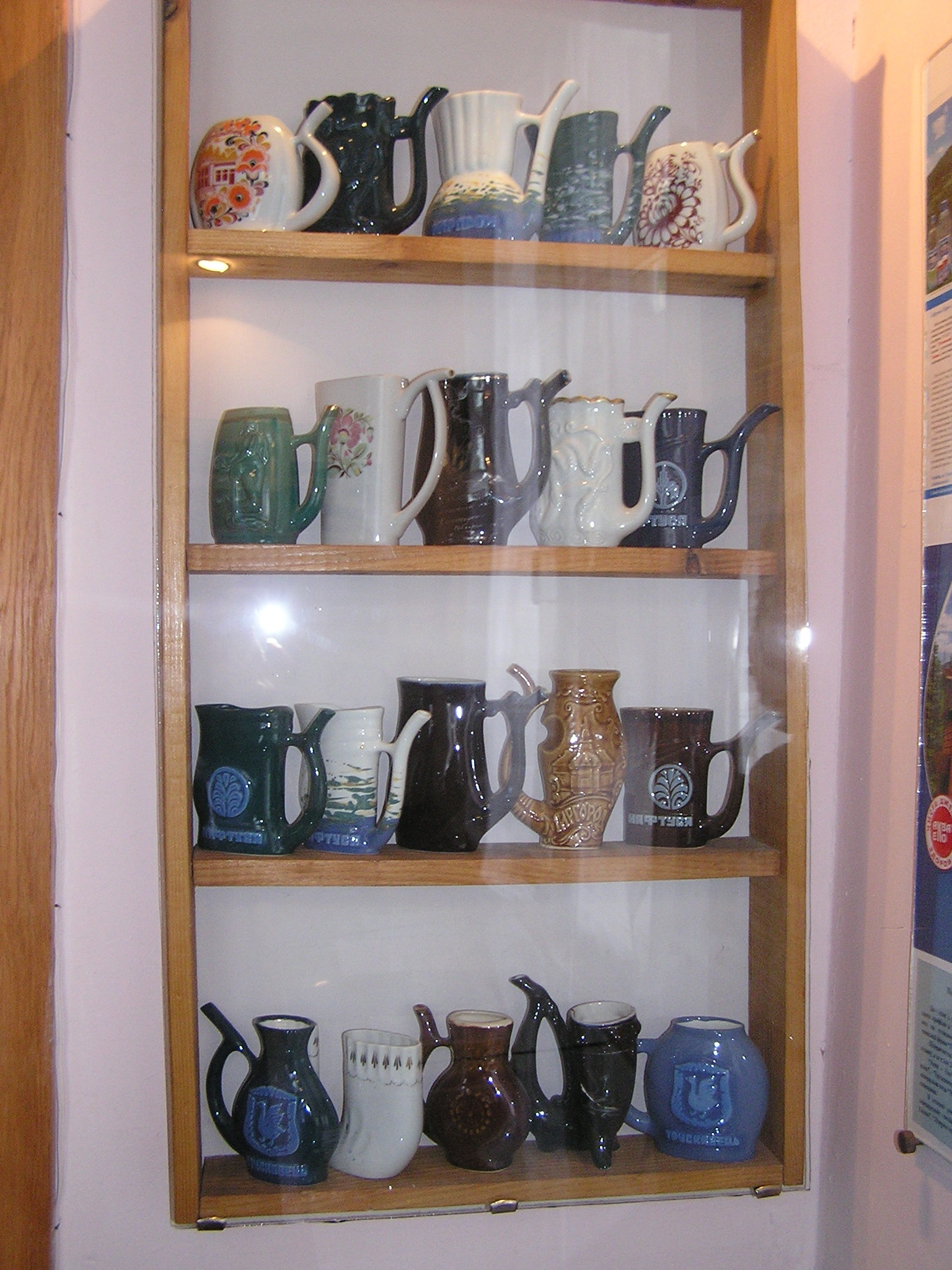 History museum of Truskavets History Museum of Truskavets Native nameМузей истории г. ТрускавецLocationTruskavetsCoordinates49° 16′ 39.5″ N, 23° 30′ 23.96″ E Established29 December 1982 Authority control : Q12130489 institution QS:P195,Q12130489